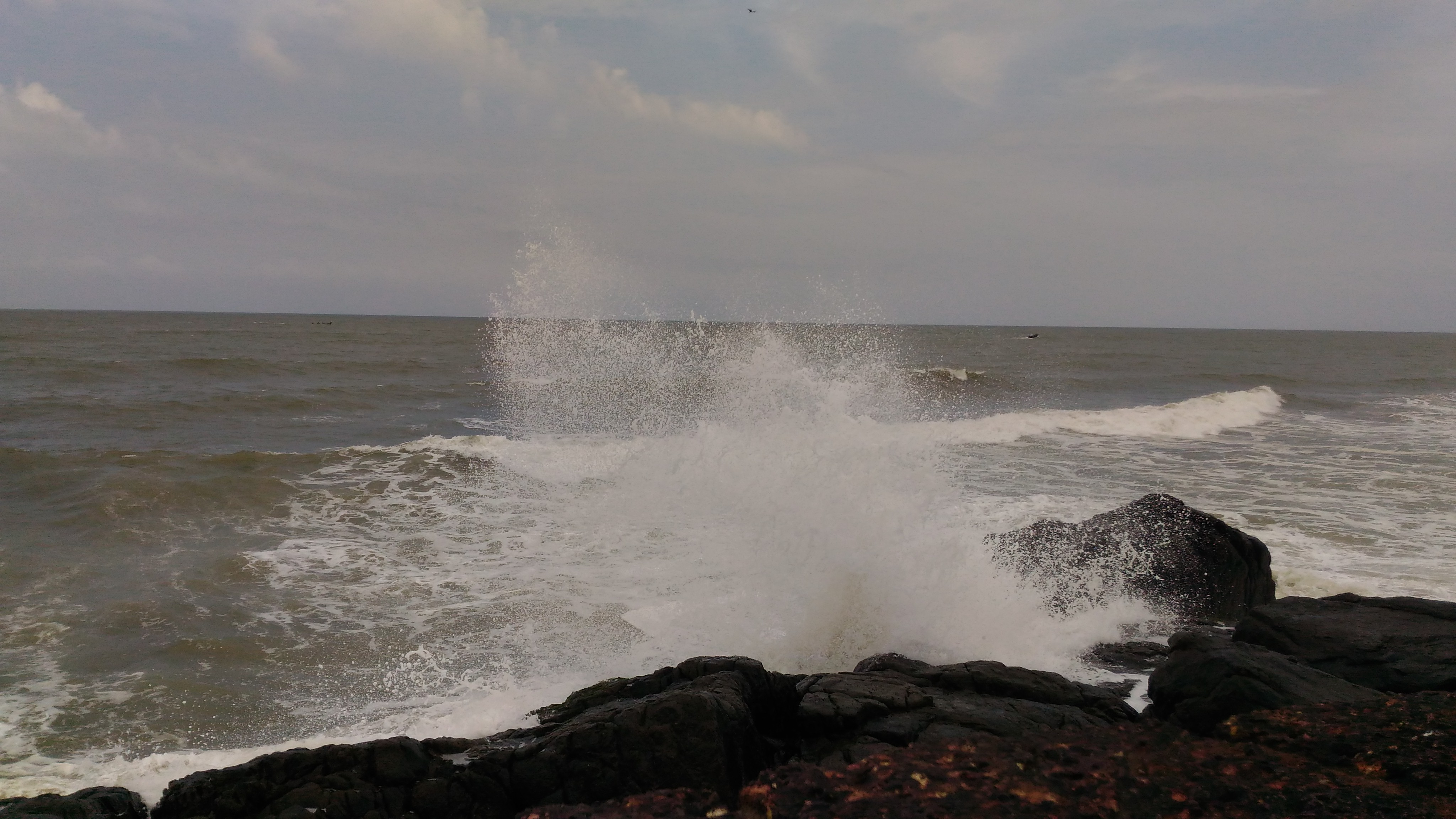 A view of sea shore from Bekal fort